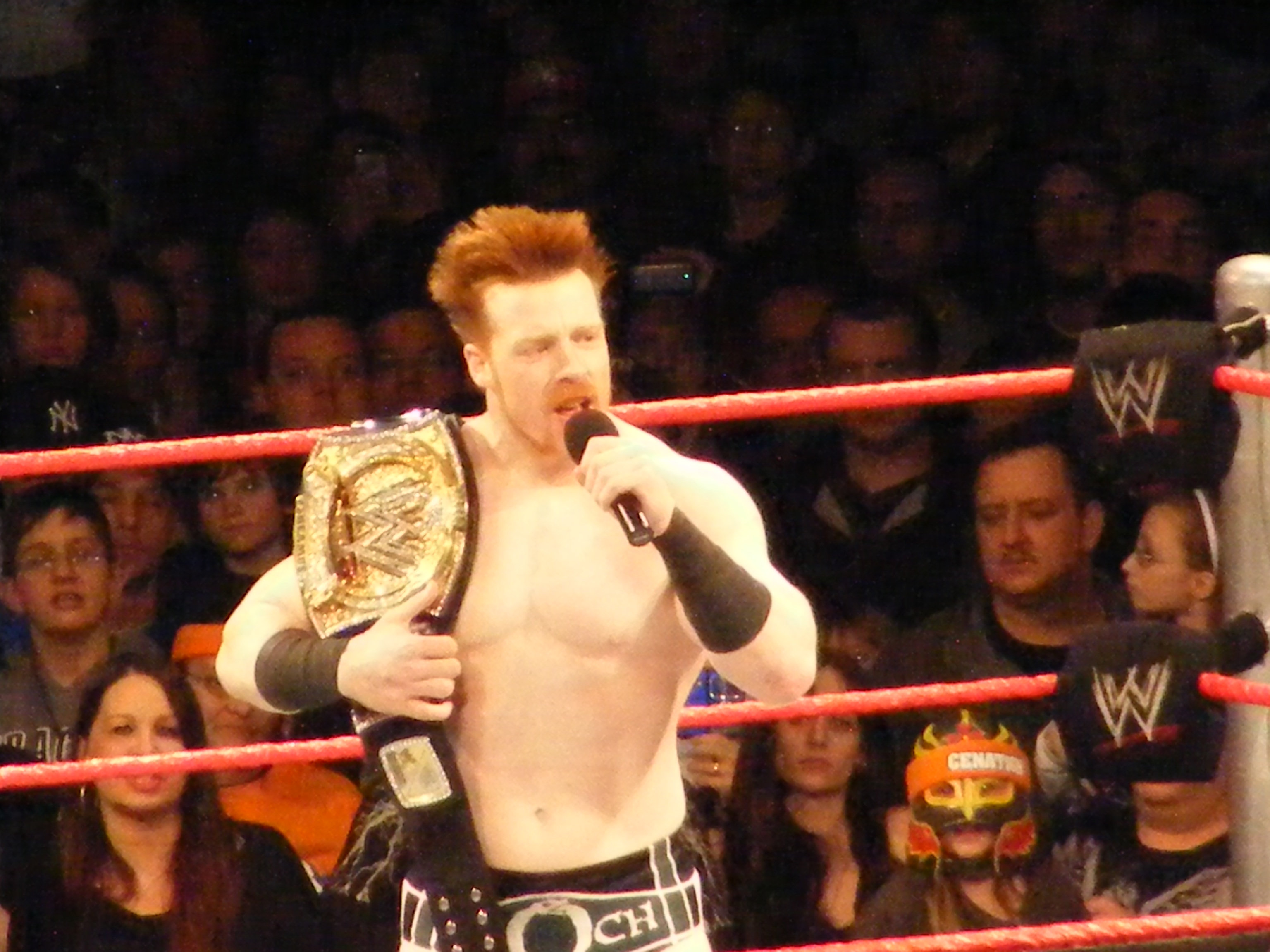 Professional wrestler Sheamus (real name Stephen Farrelly) as the WWE Champion at a Raw show in Syracuse on December 30, 2009